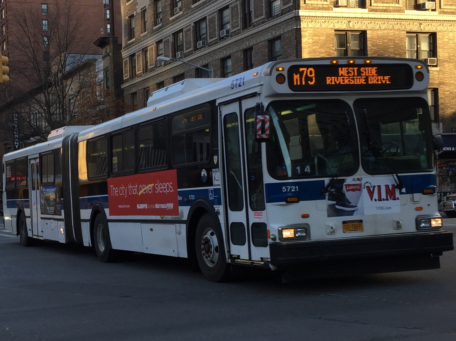 MTA Bus 5721 headed west on the Riverside Dr bound M79